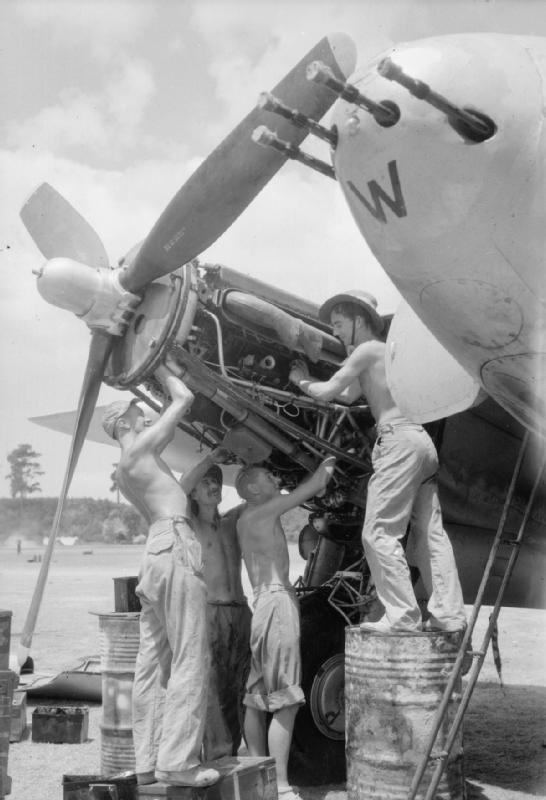 Royal Air Force Operations in the Far East, 1941-1945 Ground crew of No. 110 Squadron RAF service the starboard engine of a de Havilland Mosquito FB Mark VI at Joari, India (left to right) Leading Aircraftman E Crandon of Nechells, Birmingham Corporal A G Jackson of Mickleover, Derbyshire Leading Aircraftman G Simpson of Feltham, Middlesex Aircraftman C N King of Tottenham, London